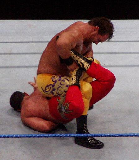 Benoit's Sharpshooter on Chavo Guerrero, Jr.